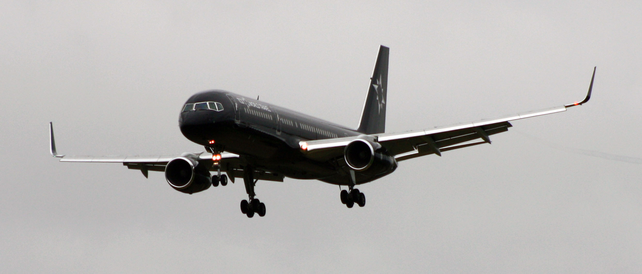 TAG Aviation B757-2K2 (G-TCSX) on short finals at George Airport